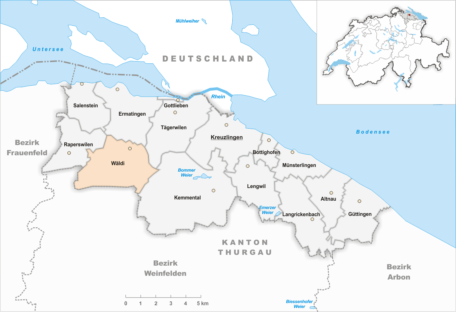 Municipality Wäldi